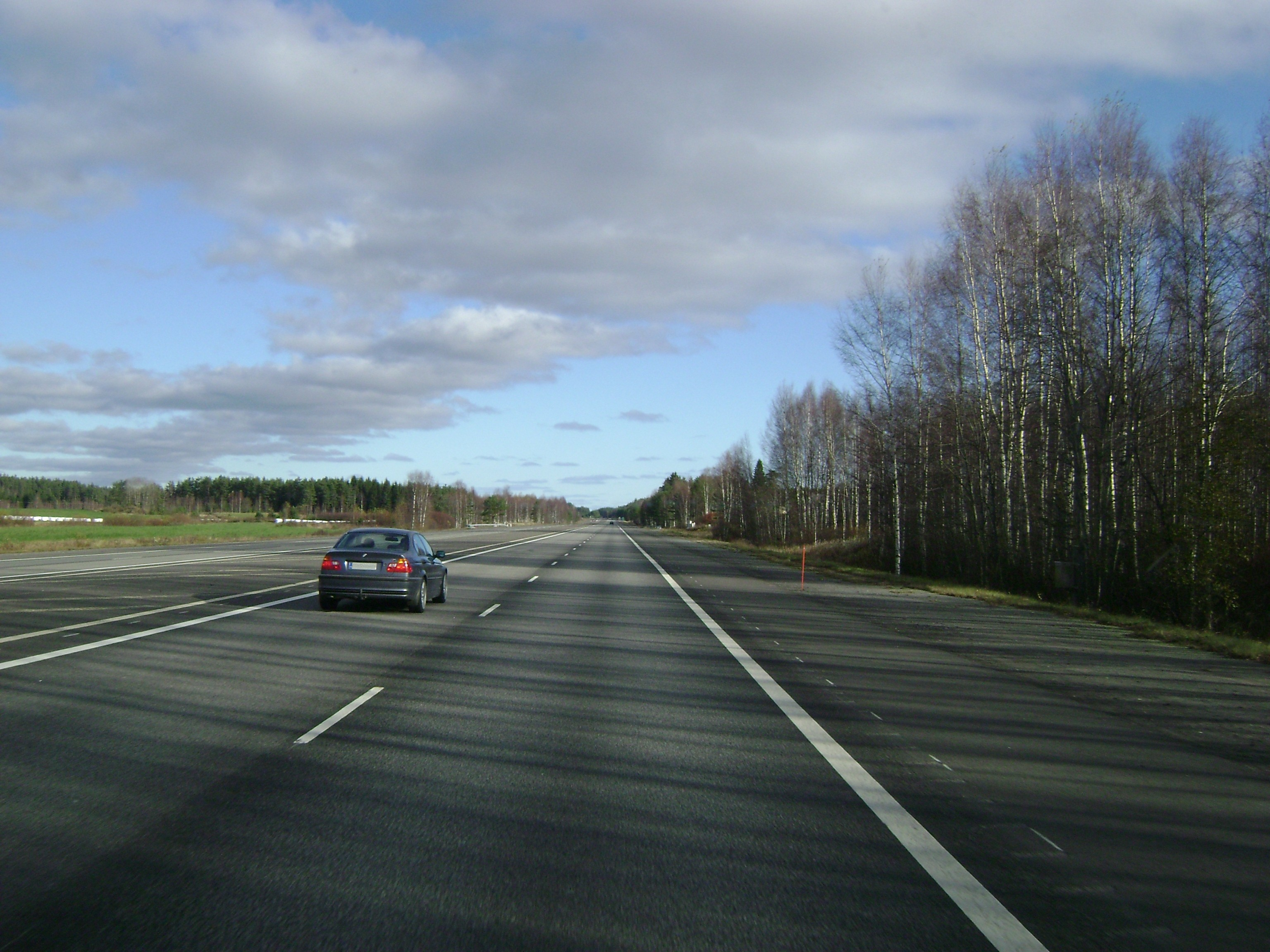 Finnish national road 5 in Lusi, Heinola. Auxiliary airplane landing strip.